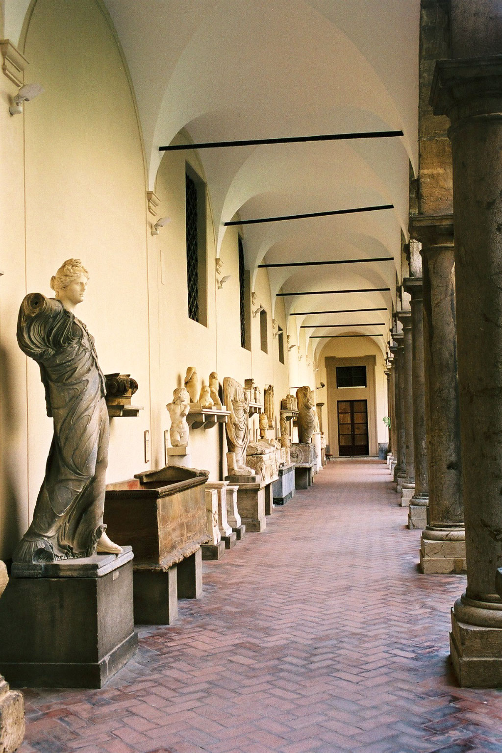 Museo archeologico regionale di Palermo. Arcades of the larger one of the inner courtyards.